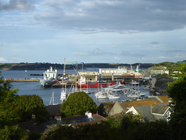 Falmouth Docks and harbour viewed from Wodehouse Terrace